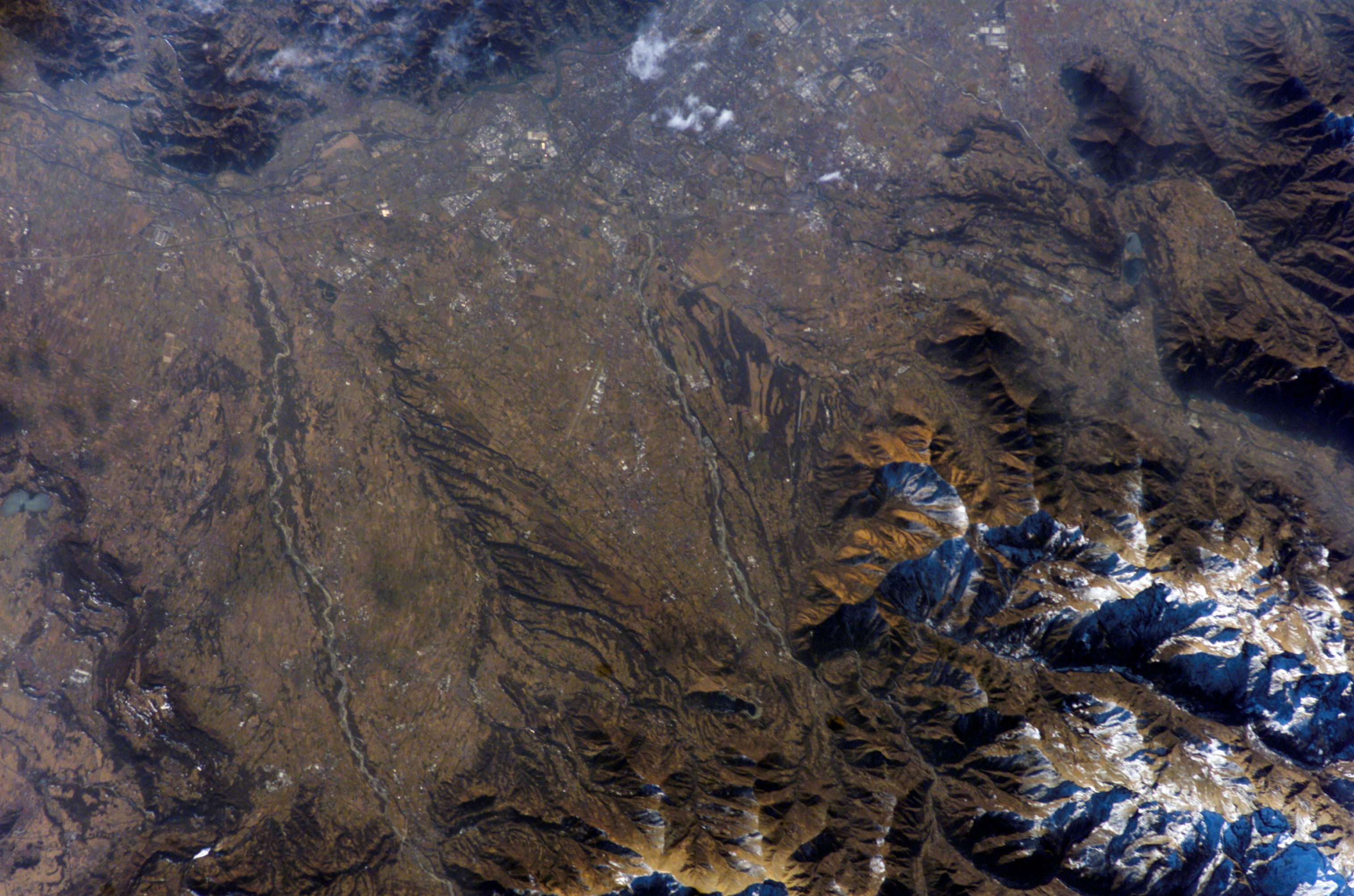 Satellite picture of Torino, in the region of Piedmont, northwestern Italy.